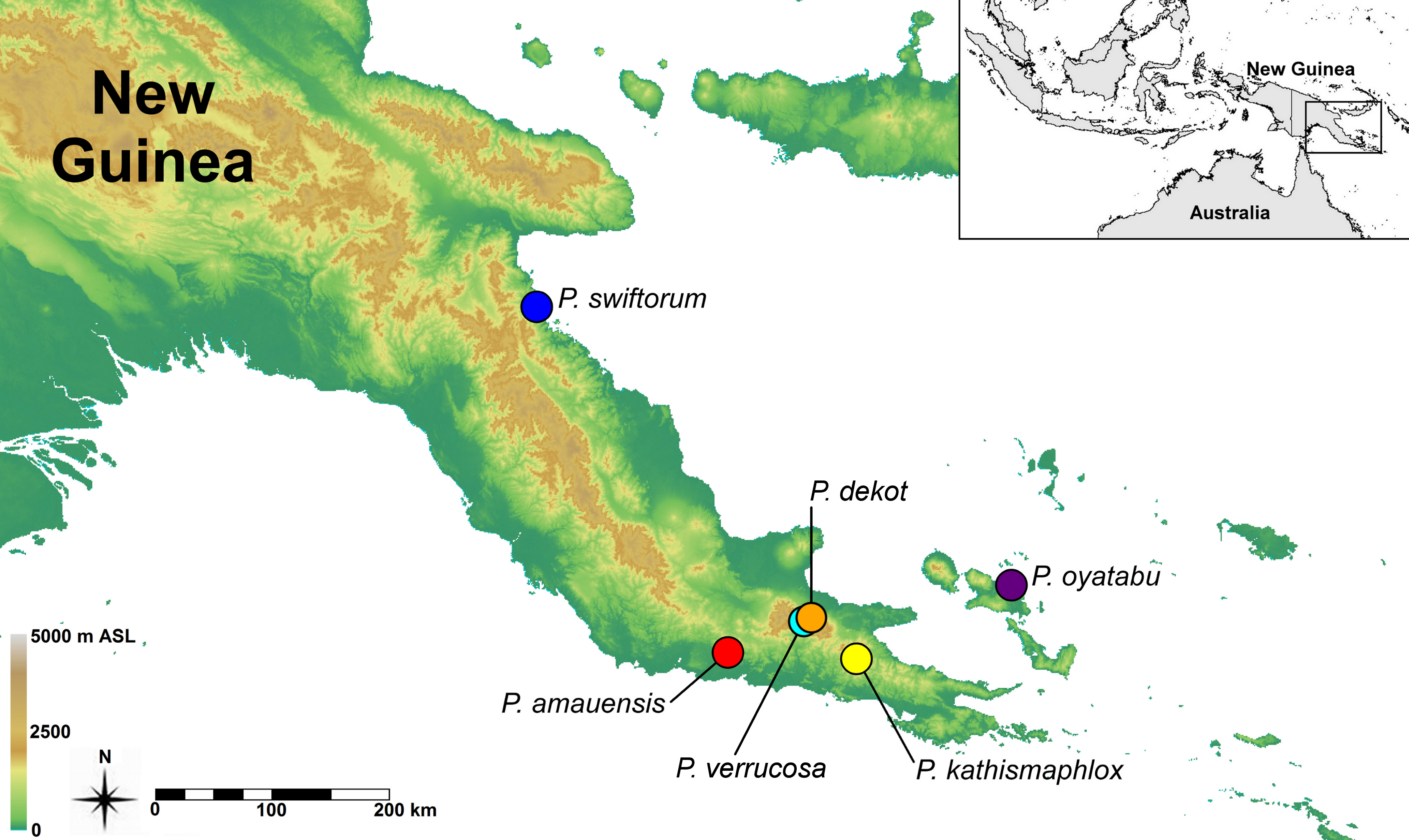 A map of localities indicating where Paedophryne specimens have been found. Six species are currently known.